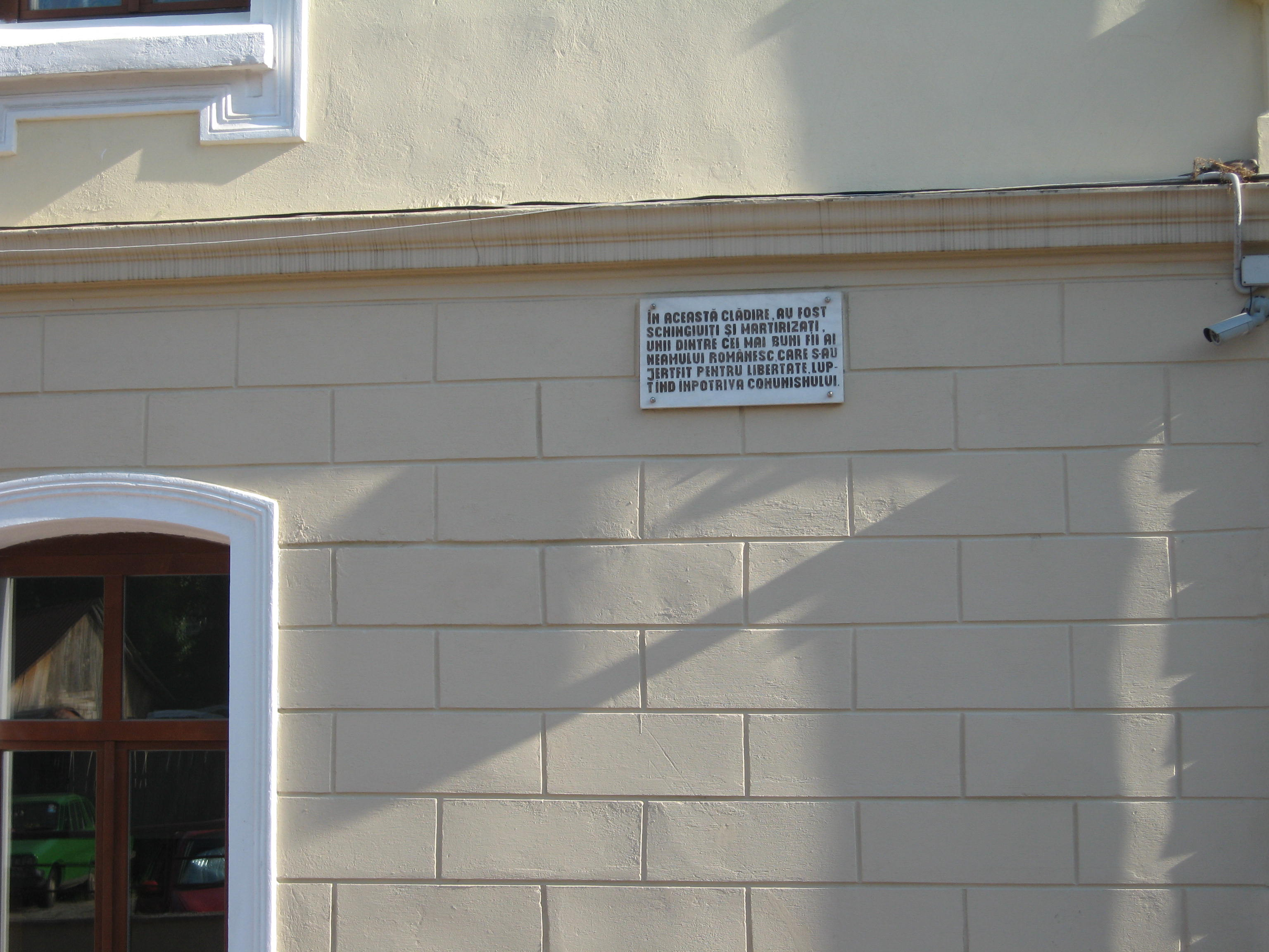 The Palace of Justice in Suceava – memorial plaque.